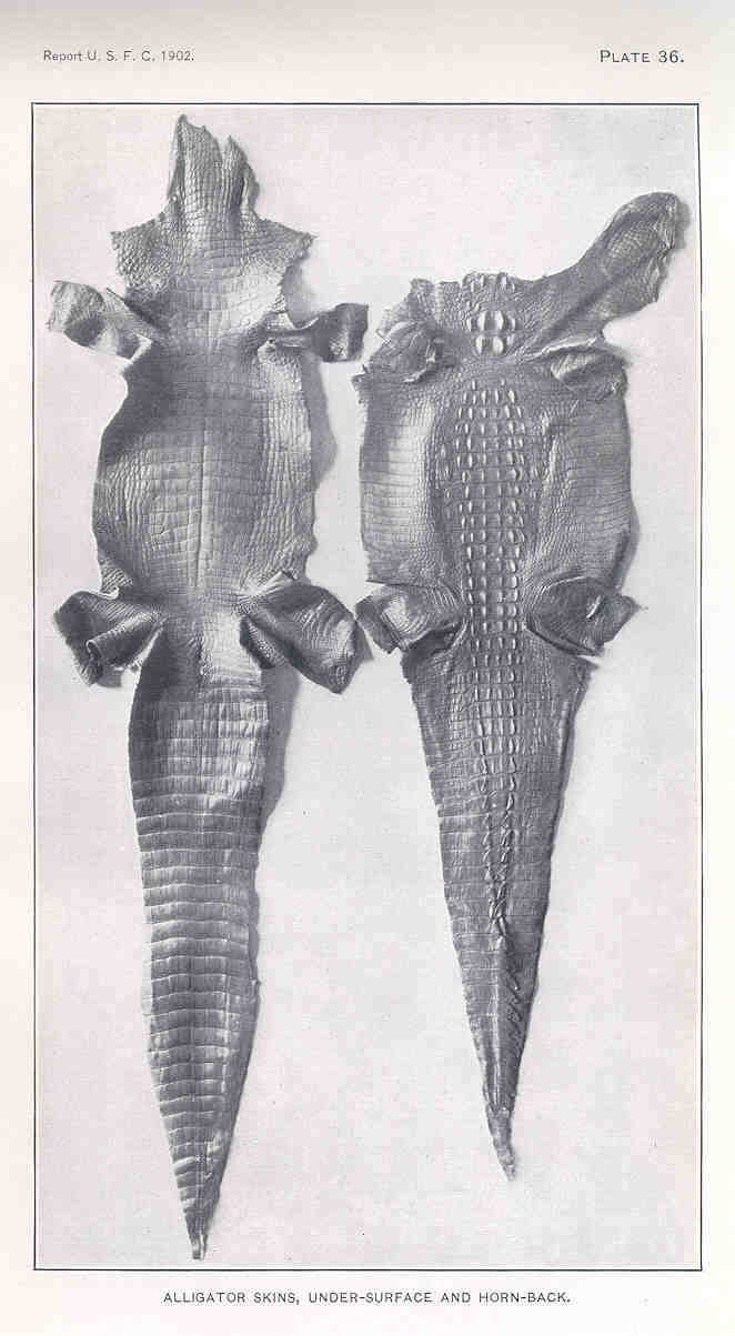 Alligator Skins Under-Surface and Horn-Back Subject: Alligators, Hides and skins Tag: Reptiles